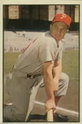 1953 Bowman Color baseball card of Mel Clark of the Philadelphia Phillies #67. PD-not-renewed.